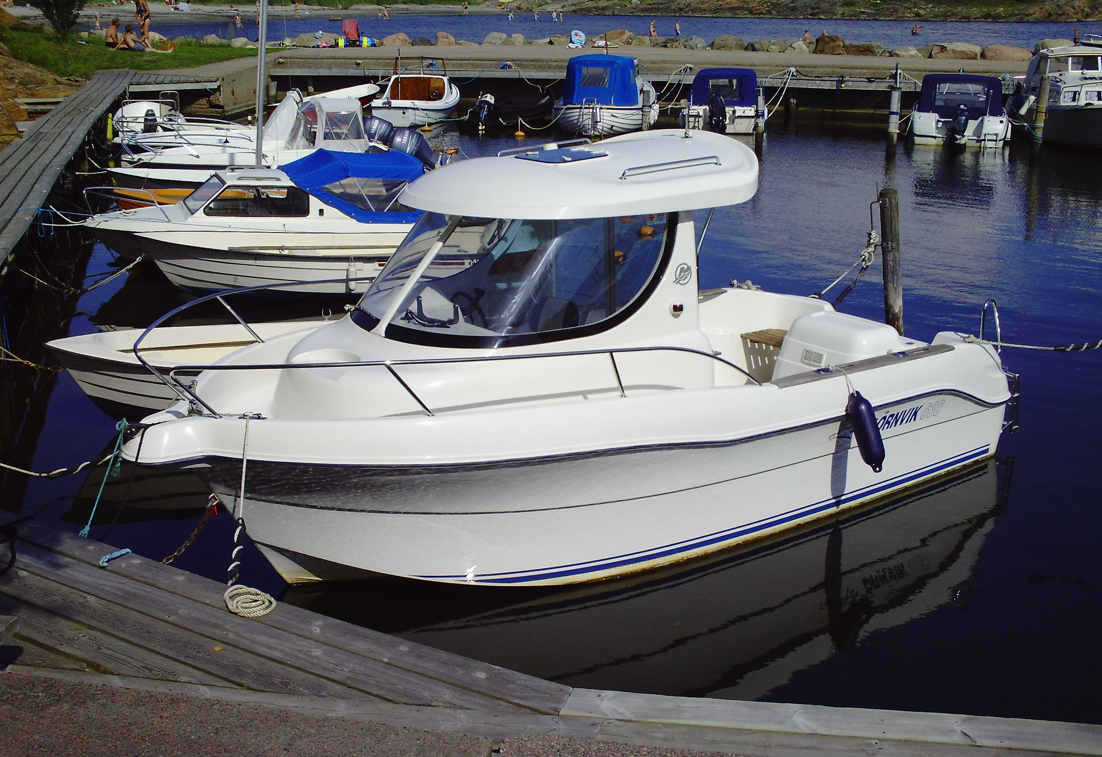 A Örnvik 630.